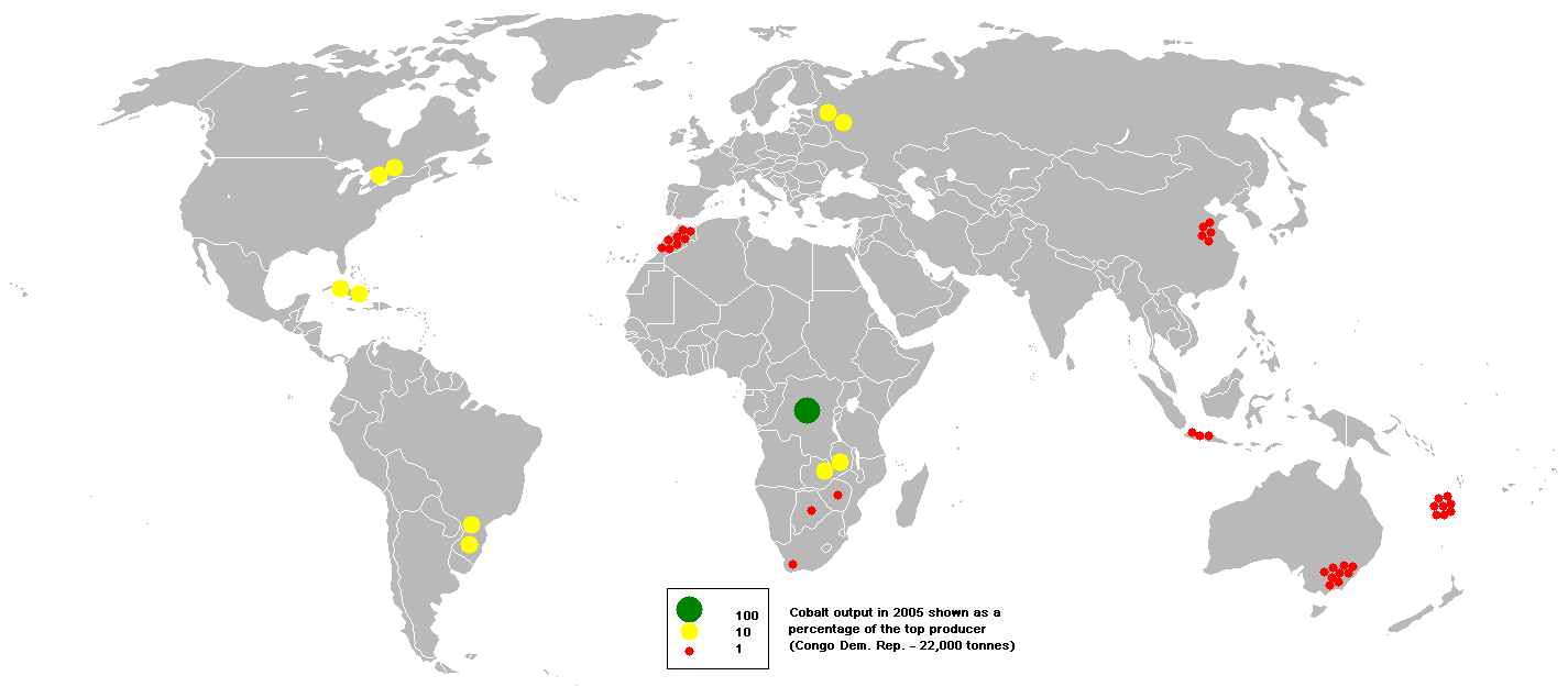 This bubble map shows the global distribution of mined output of cobalt in 2005 as a percentage of the top producer (Congo Dem. Rep. - 22,000 tonnes). This map is consistent with incomplete set of data too as long as the top producer is known. It resolves the accessibility issues faced by colour-coded maps that may not be properly rendered in old computer screens. Data was extracted on 3rd June 2007. Source - Based on :Image:BlankMap-World.png